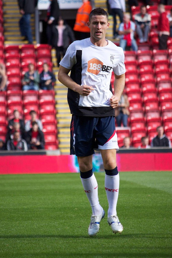 Gary Cahill